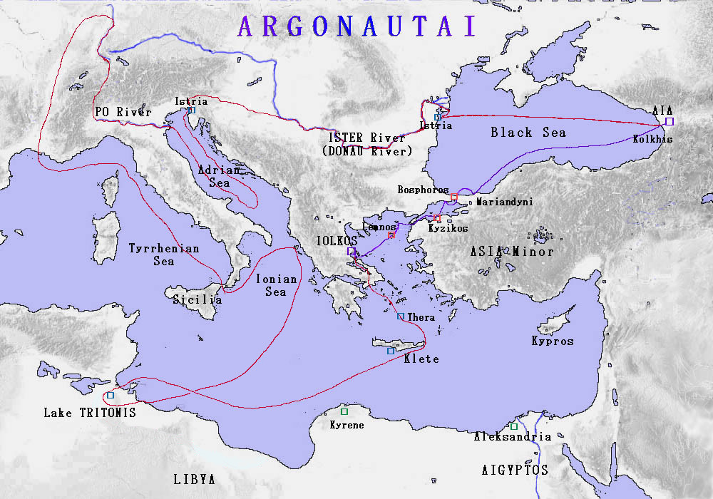 Revised version of MS-Argonautai-route.jpg, showing some of the corrections suggested by another editor.